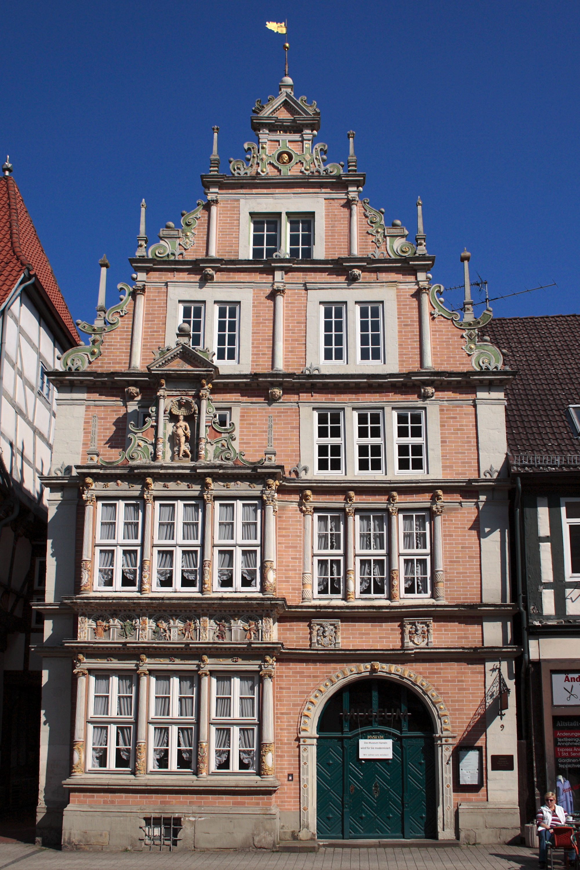 This image shows an ancient building called Leisthaus in Hameln, Germany.